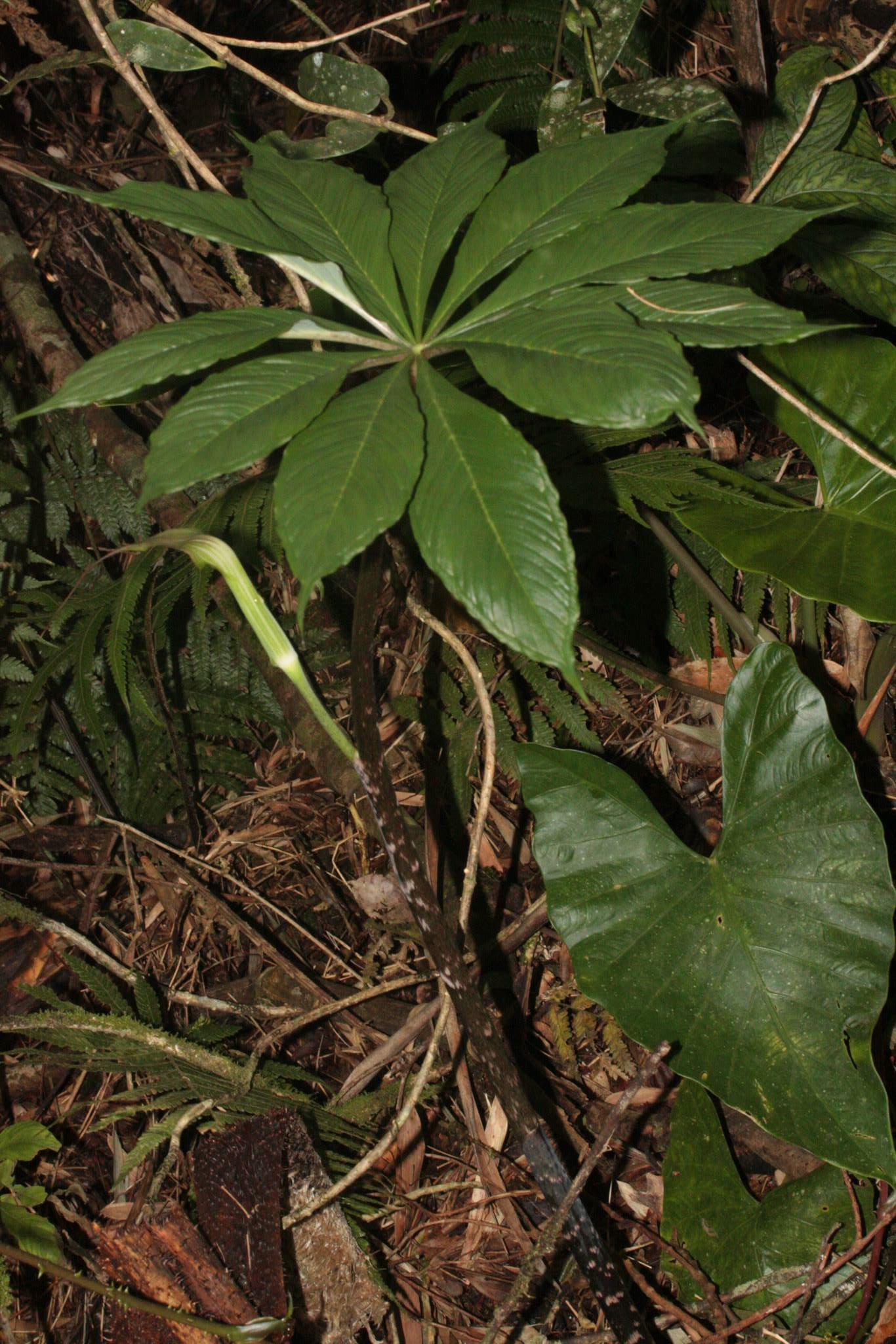 Arisaema polyphyllum in Antique, Panay Is. Philippines